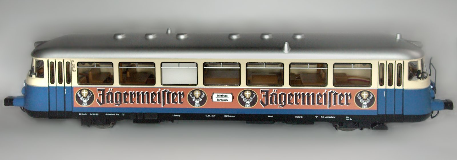 Model of the Railbus, that connected Uetersen and Tornesch (Germany, Schleswig-Holstein) from 1957/58 to 1965, Photo 2009.